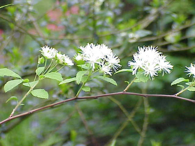 Species: Neviusia alabamensis Family: ' Image No. 2